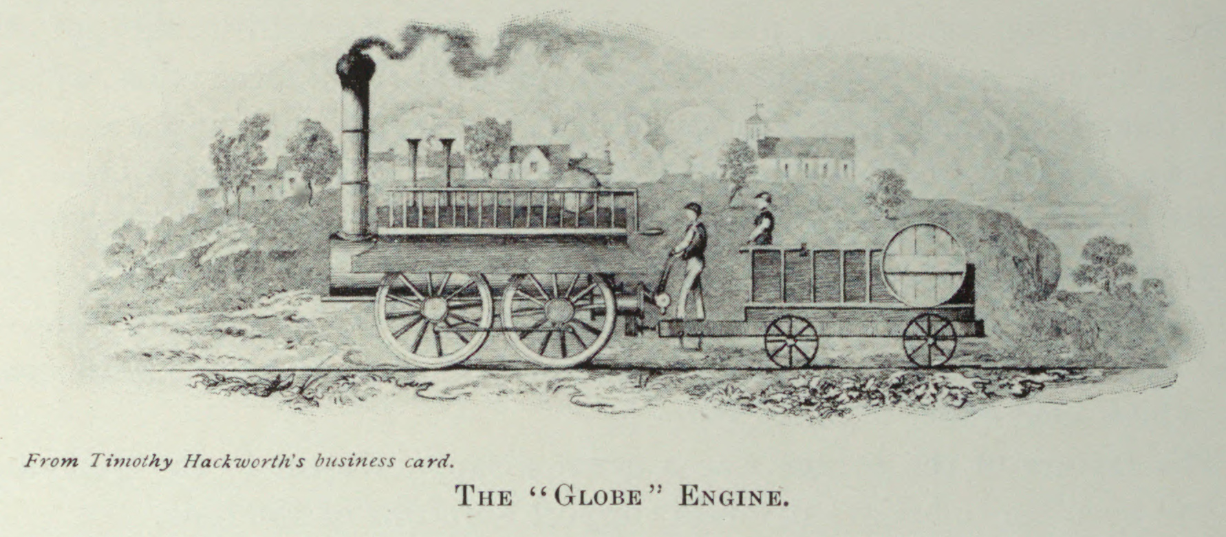 The Stockton and Darlington Railway locomotive "Globe", introduced in 1830